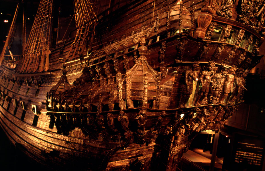 The stern of the Wasa, Stockholm, 2004